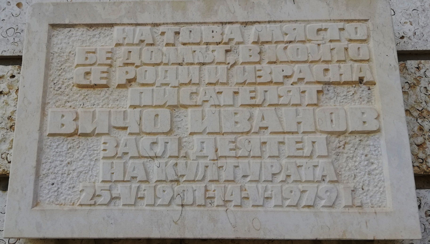 Vicho Ivanov memorial plaque at Petrov dol, Varna province, Bulgaria